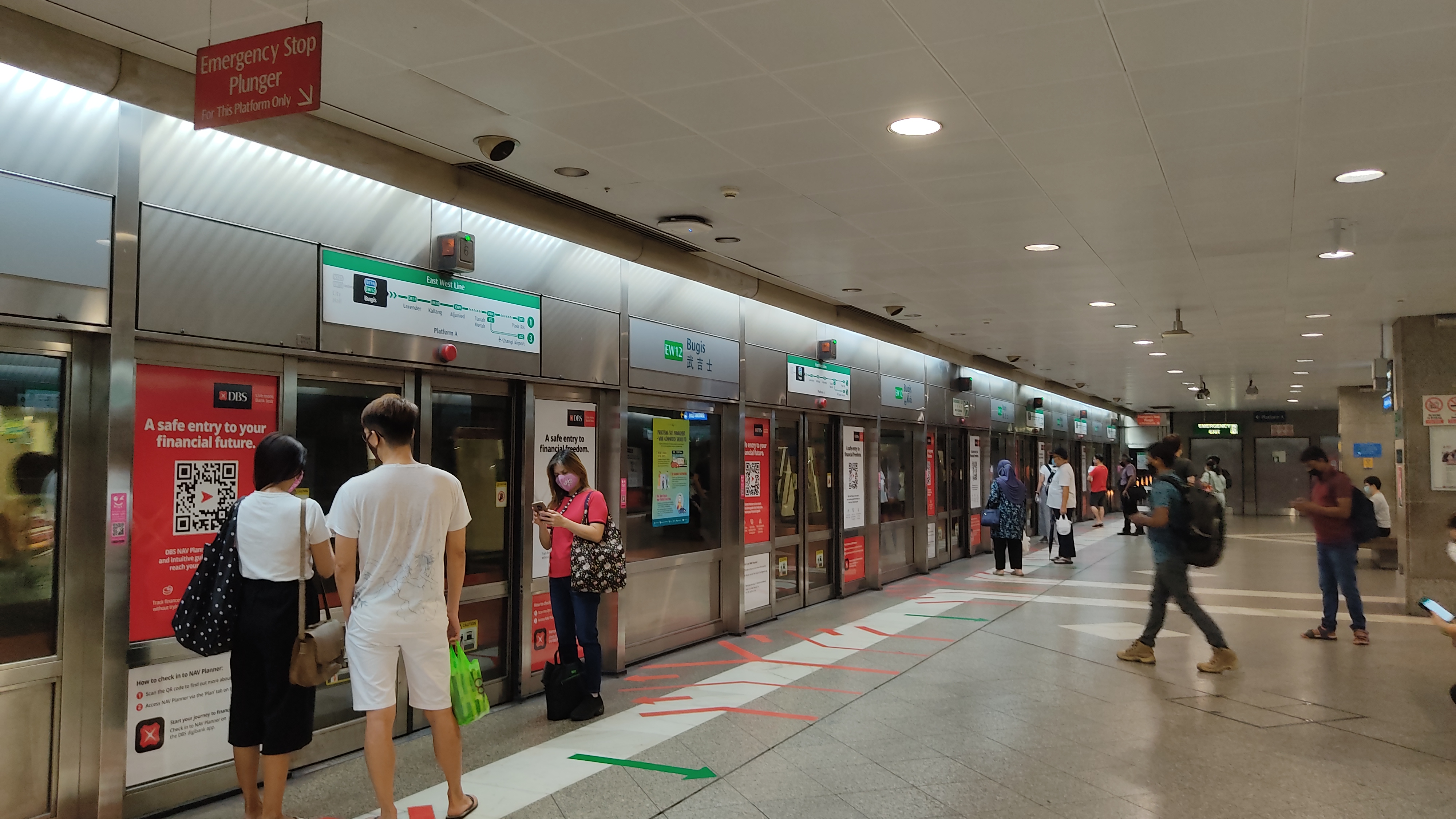 EW12 Bugis Platform A